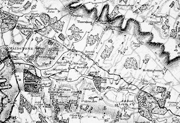 Part of the 1801 one-inch map of Kent showing Maidstone to the east. This map was the first Ordnance Survey map to published.